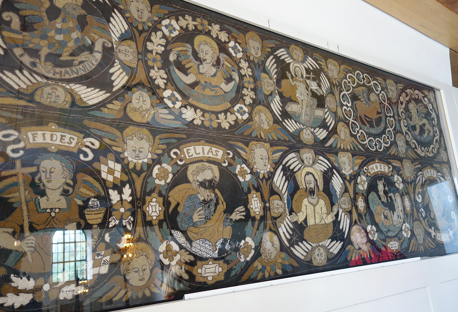 Antependium from 1589 in the church of Öjebyn, Piteå, northern Sweden.